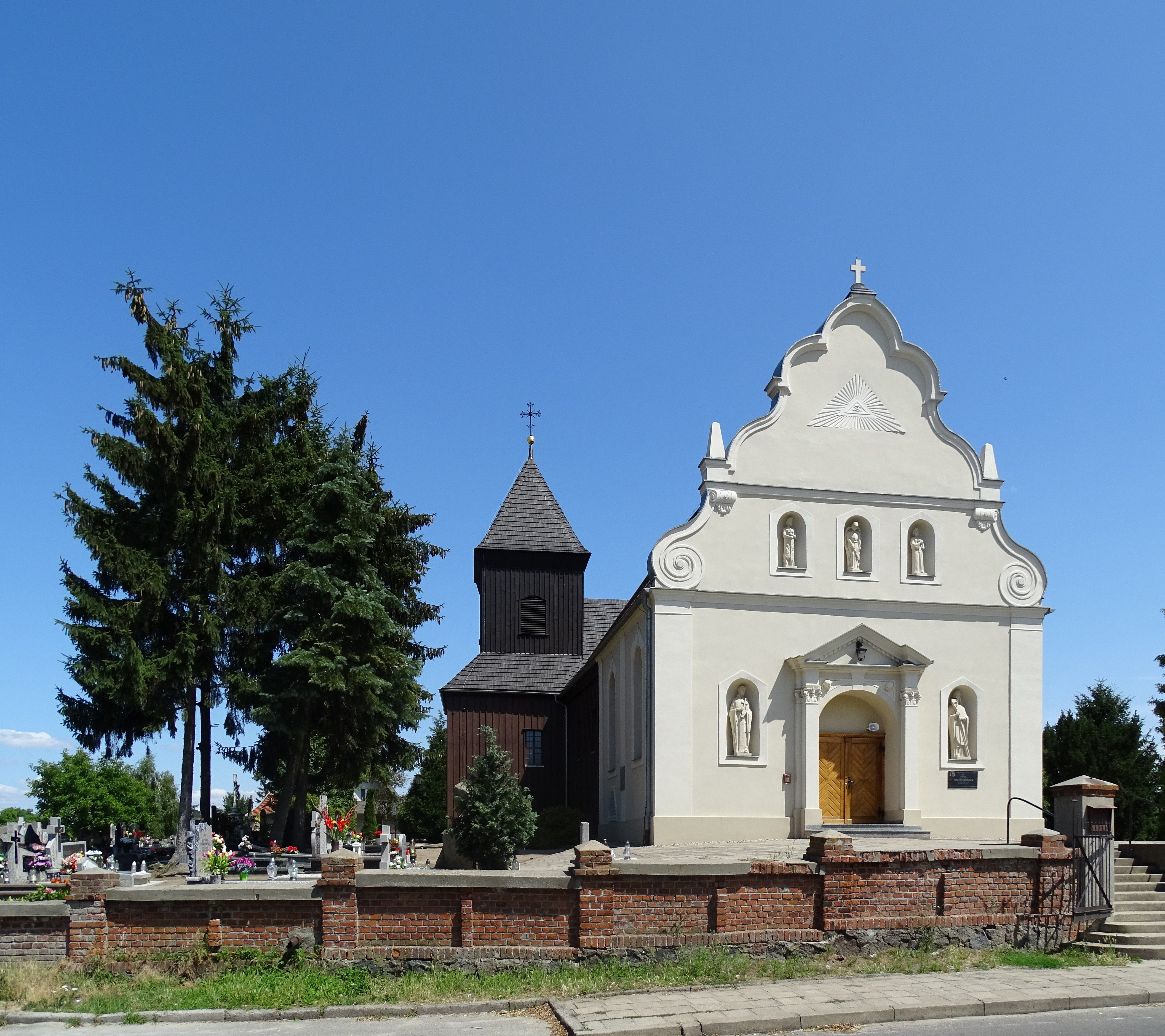 Niechanowo, Greater Poland. Partly wooden church of Saint James. Built in 1776, extended in 1908.